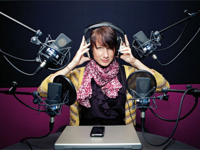 Aleks Krotoski